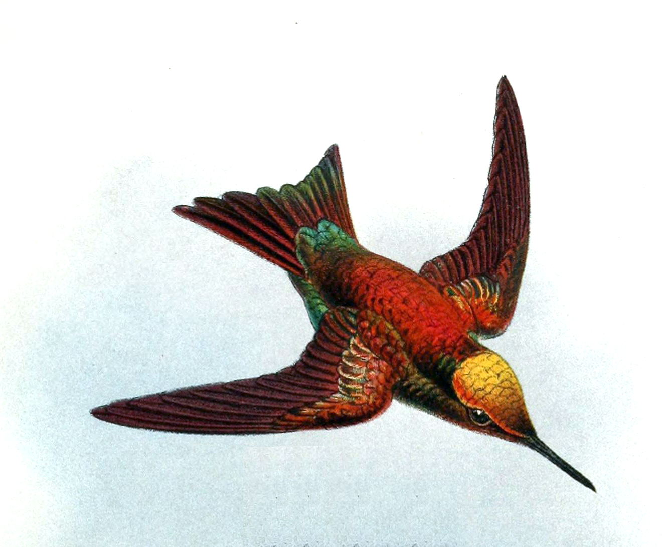 "Brilliant Emerald"